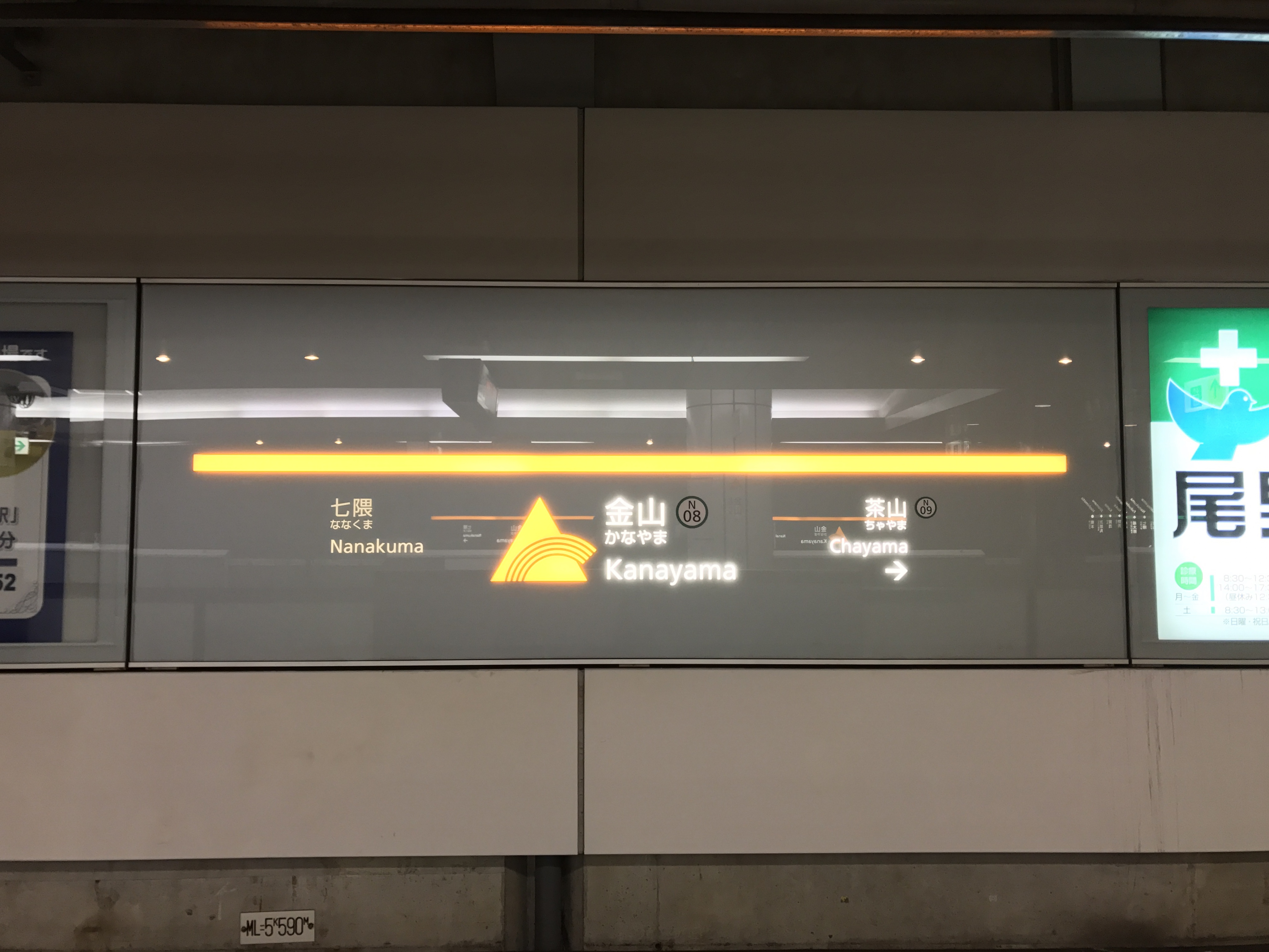 Kanayama Station in Fukuoka Prefecture, Japan